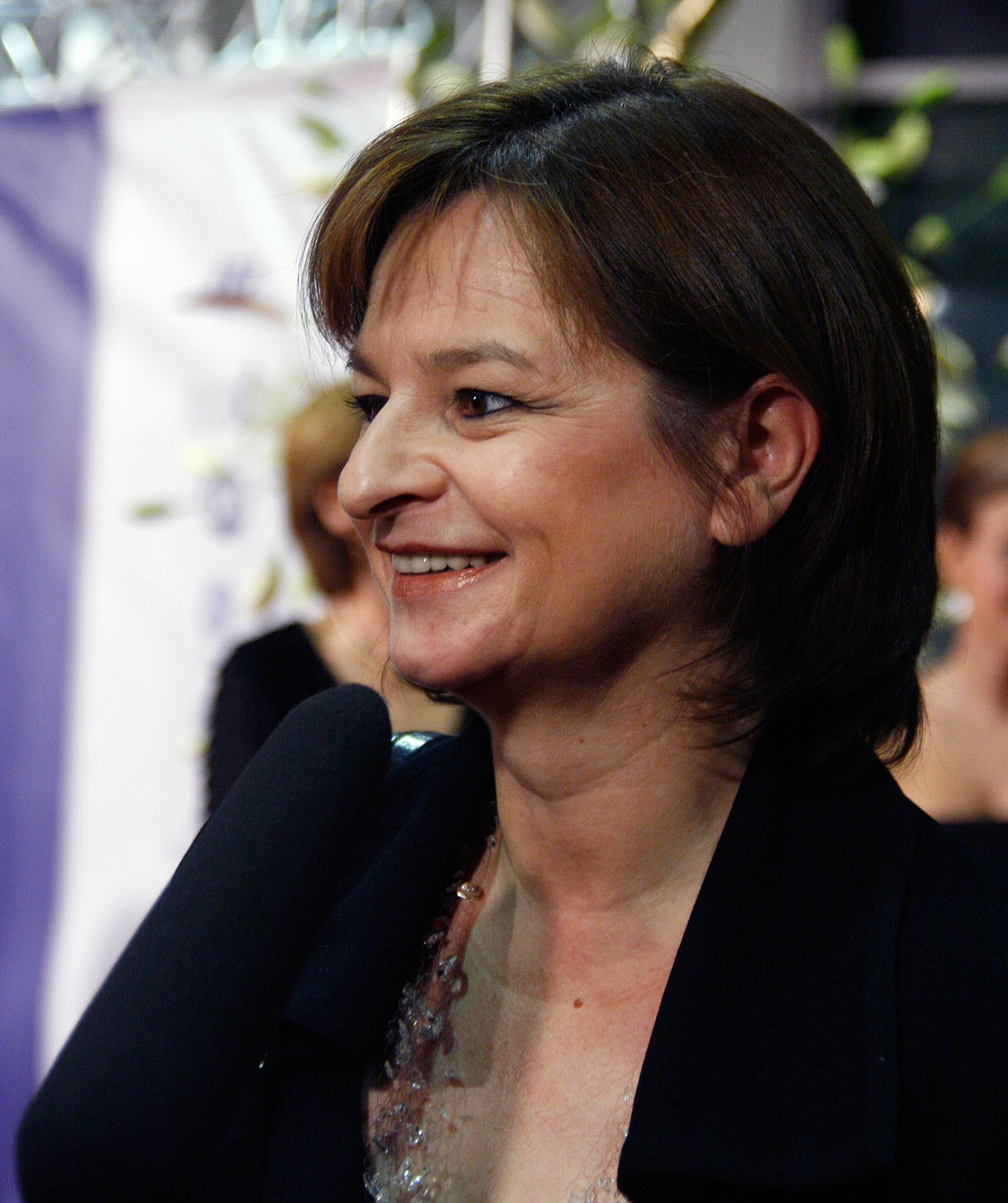 Susanne Riess-Passer at the award show for the Austrian Sportspersonalities of the year 2009.